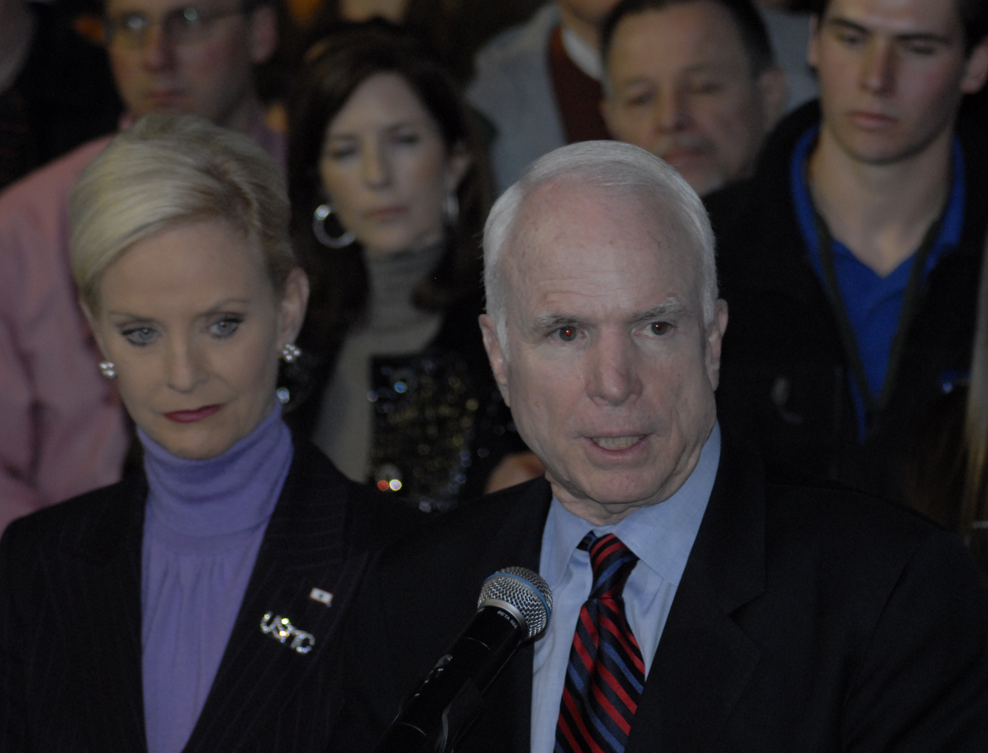 Senator John and Mrs. Cindy McCain